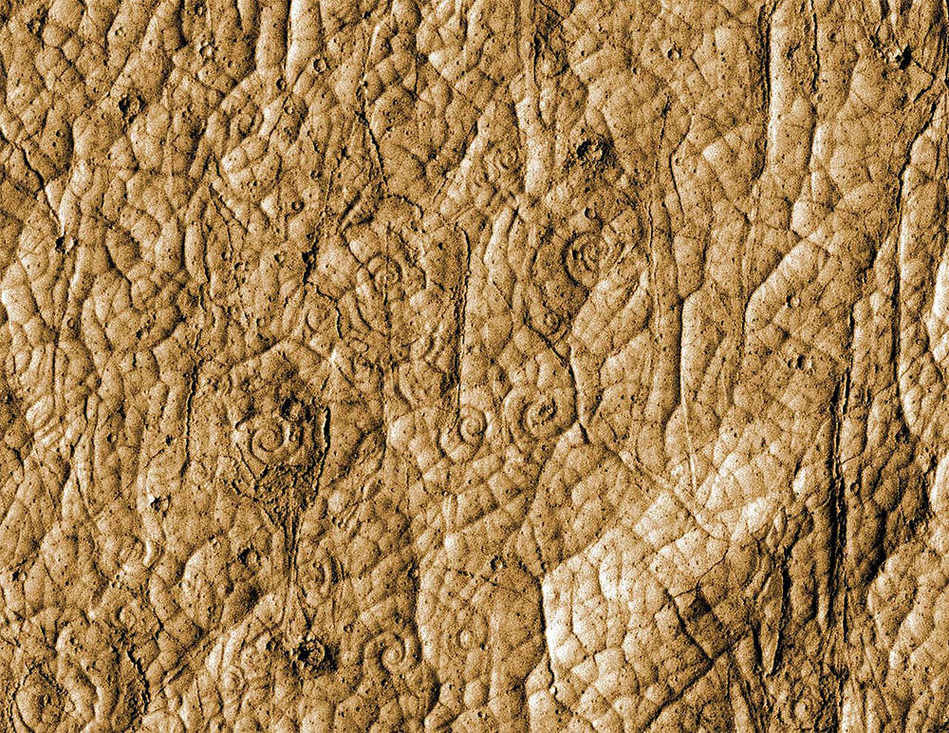 In this image we can see more than a dozen lava coils in a volcanic region on Mars, named Cerberus Palus that is about 500 meters wide. Image taken from HiRISE camera on the Mars Reconnaissance Orbiter.